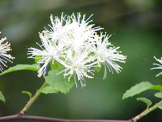 Species: Neviusia alabamensis Family: ' Image No. 1